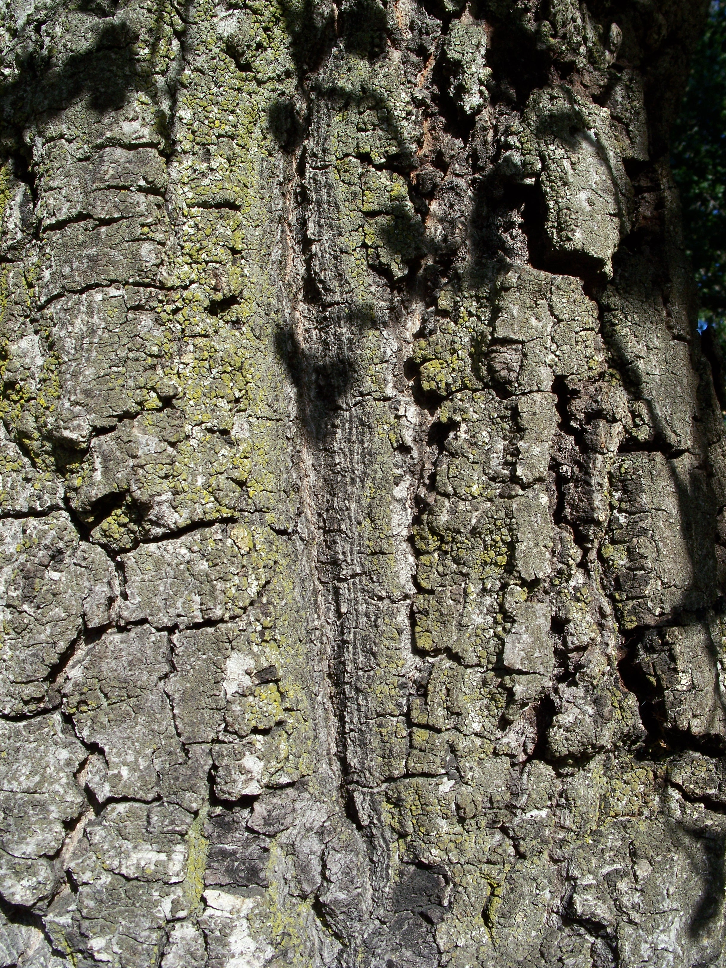 Coast Live Oak